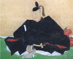 Niwa Takahiro, lord of the Nihonmatsu domain.